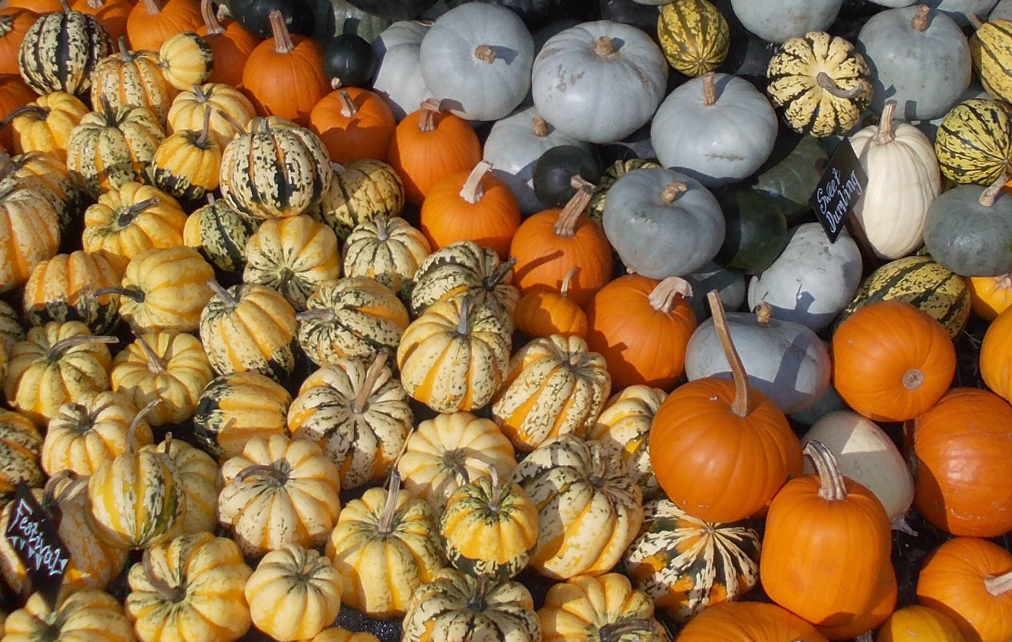 Some of the many varieties of squashes at Kew Gardens IncrEdibles festival, 2013